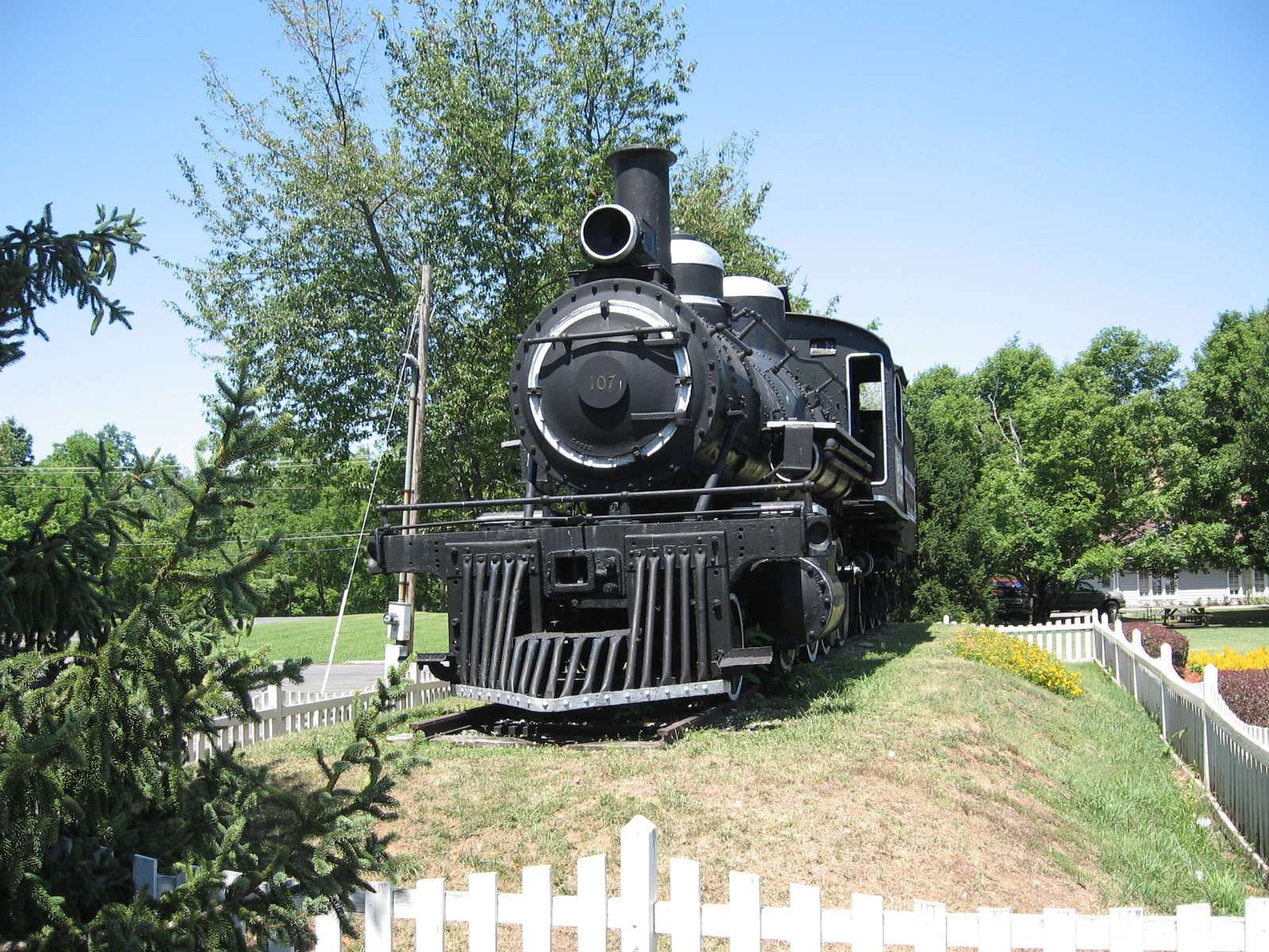 It became Smoky Mountain Railroad engine #107 and was later owned by Rebel Railroad. It is now owned by the Dollywood themepark and is on display at Hwy 441 in Pigeon Forge, TN.